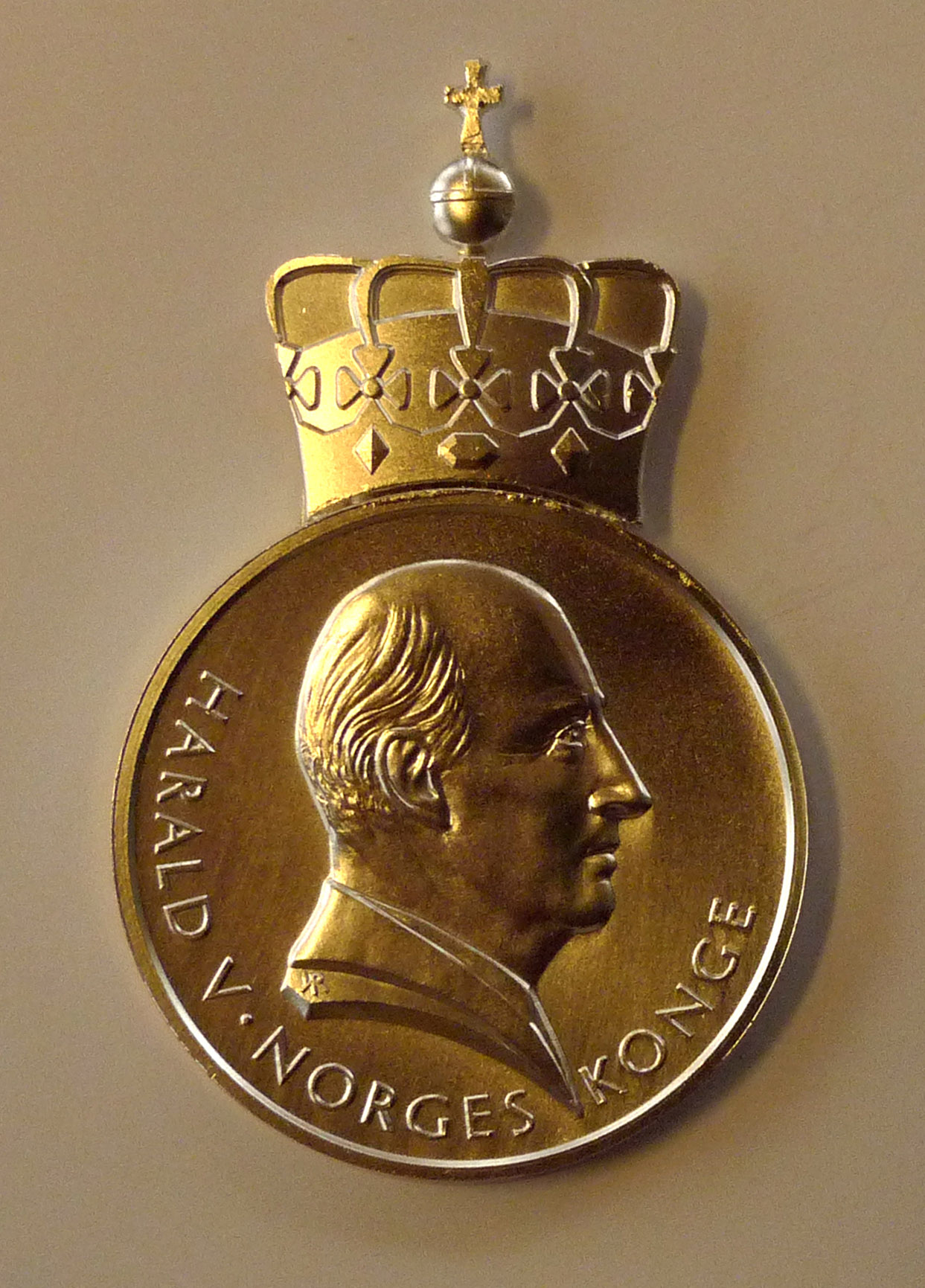 Adverse of the Norwegian medal for heroic deeds(=Medaljen for edel dåd), as it looks under King Harald V of Norway